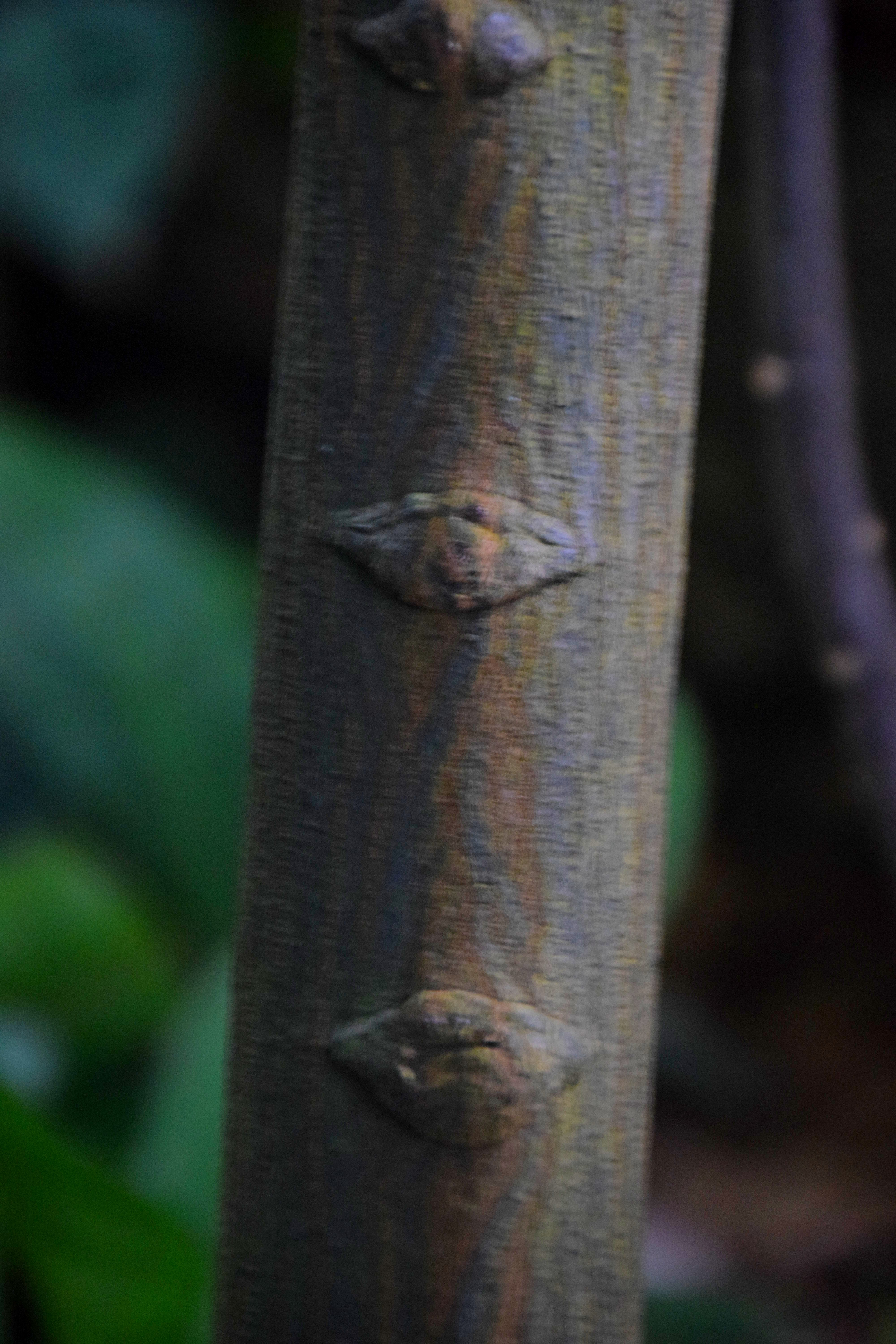 Monodora crispata in Tropengewächshäuser des Botanischen Gartens, Hamburg